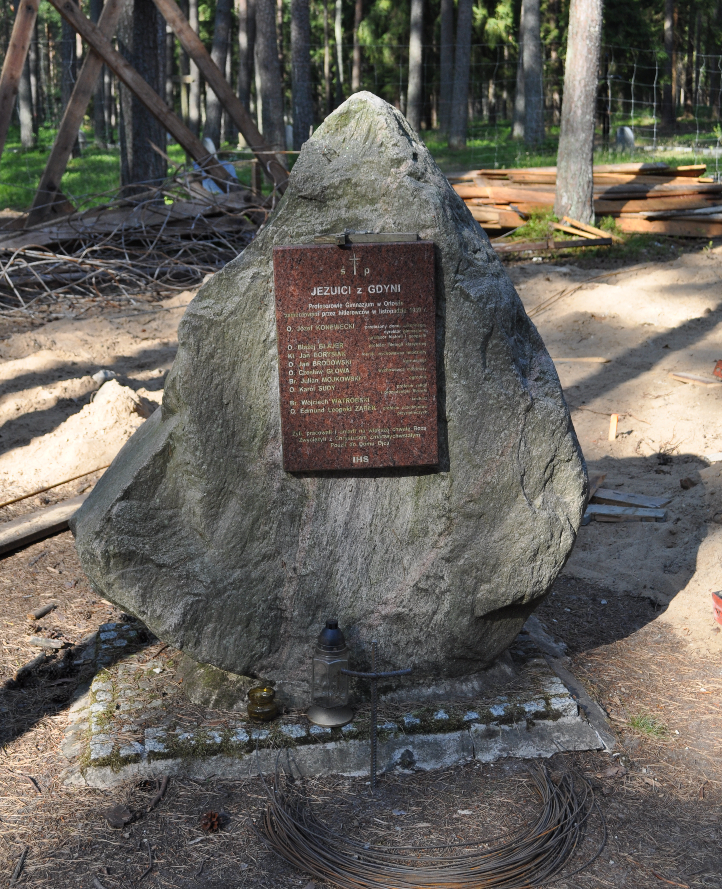 Plate in Piaśnica Forest.